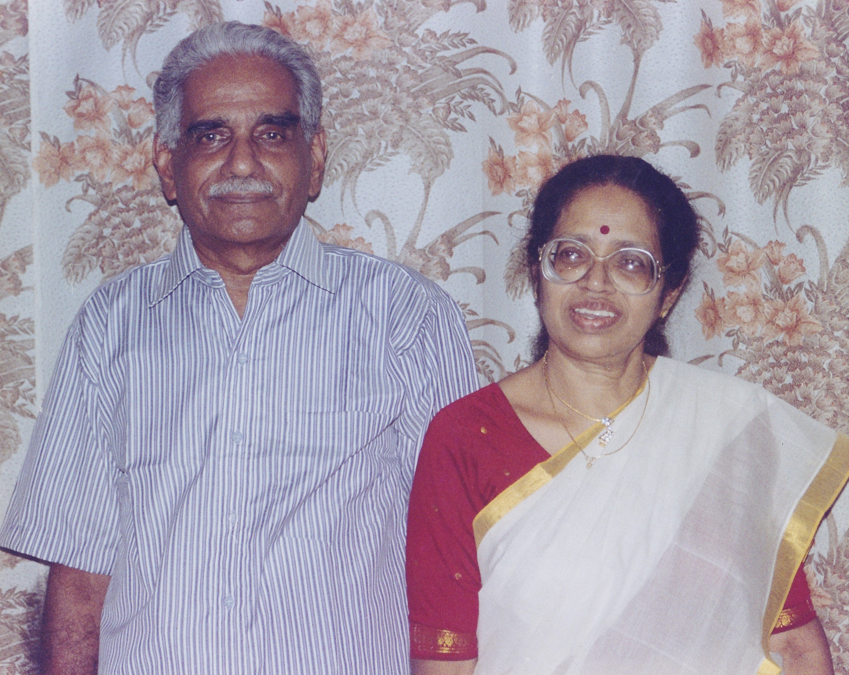 image of Gopalakrishnan and Omana